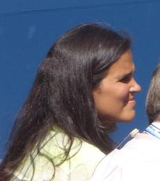 Mary Joe Fernández at the 2005 US Open